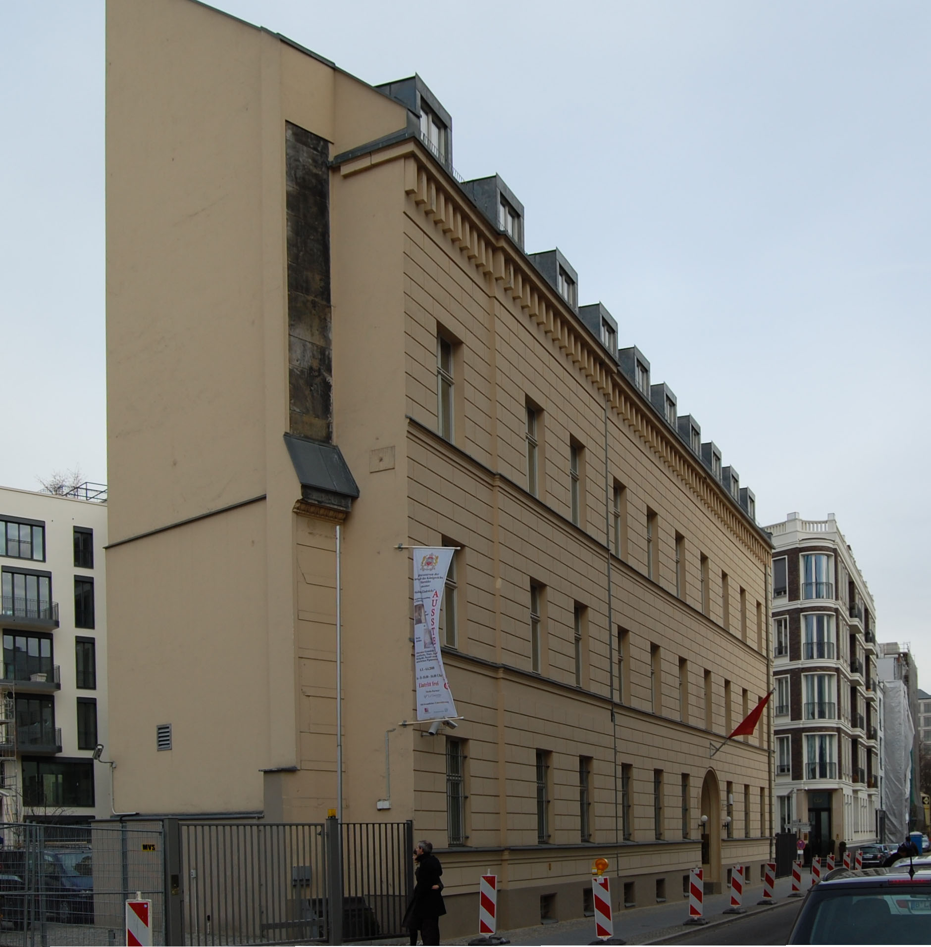 Embassy of Morocco in Berlin